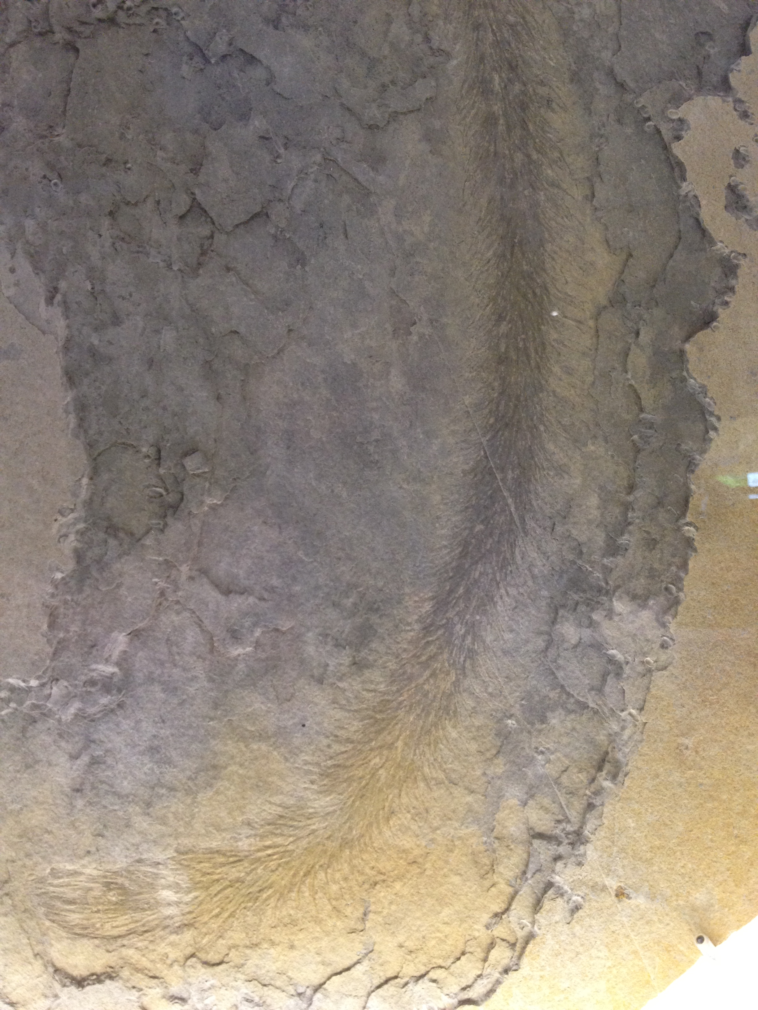 Fossil found in Victoria, Australia of the extinct early club-moss genus Baragwanathia, on display at Melbourne Museum